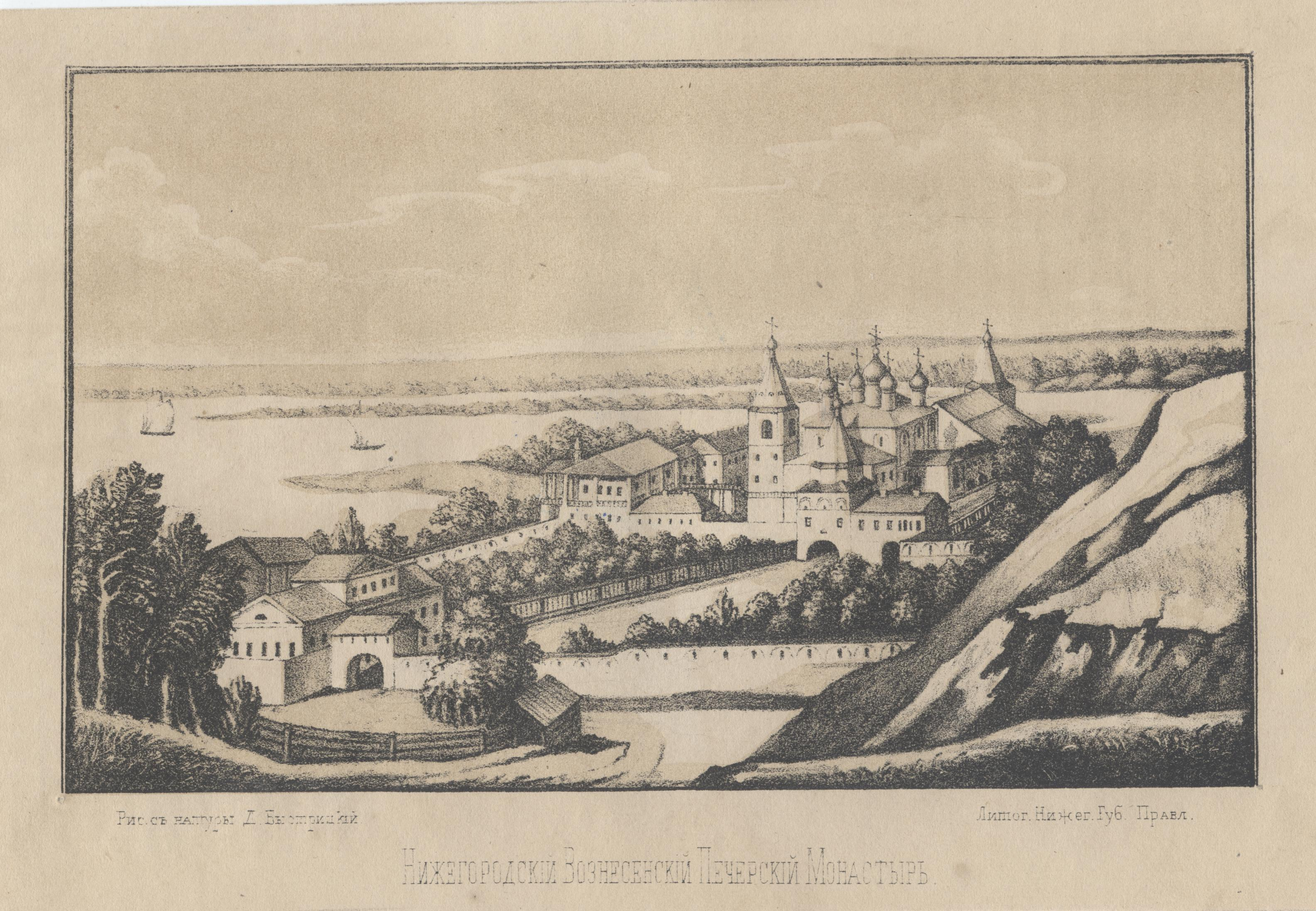 Nizhny Novgorod. Pechersky male monastery